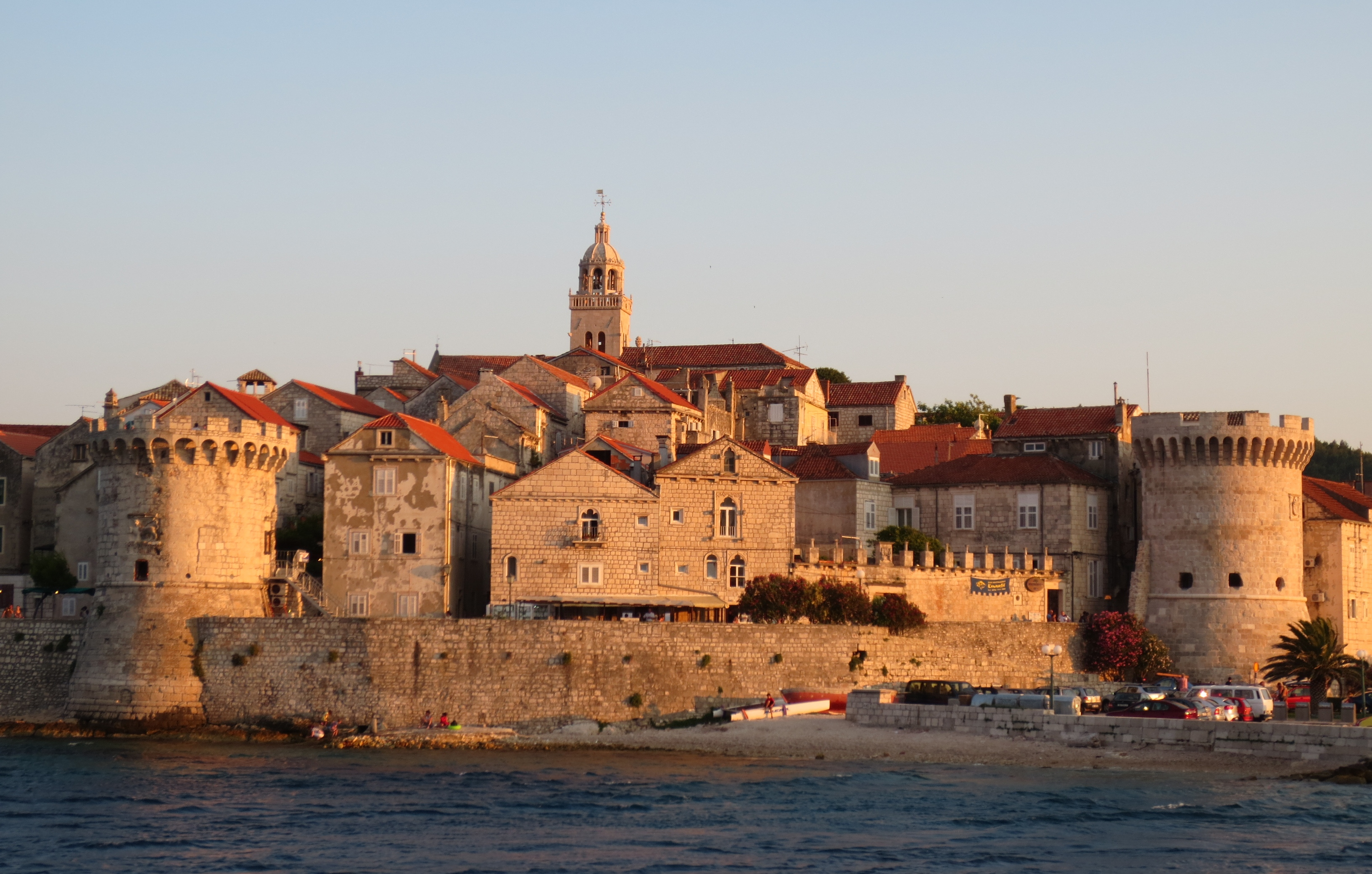 Korčula city center